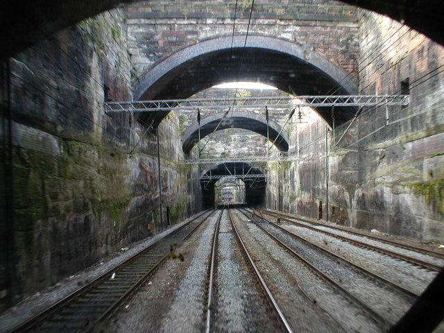 Leaving Liverpool Lime St